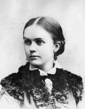 Flora Loughead - Lockheed, opal Queen died - this pic was also in Women of the Century - see Wikisource